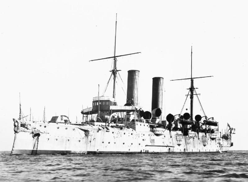 British protected cruiser HMS BLENHEIM